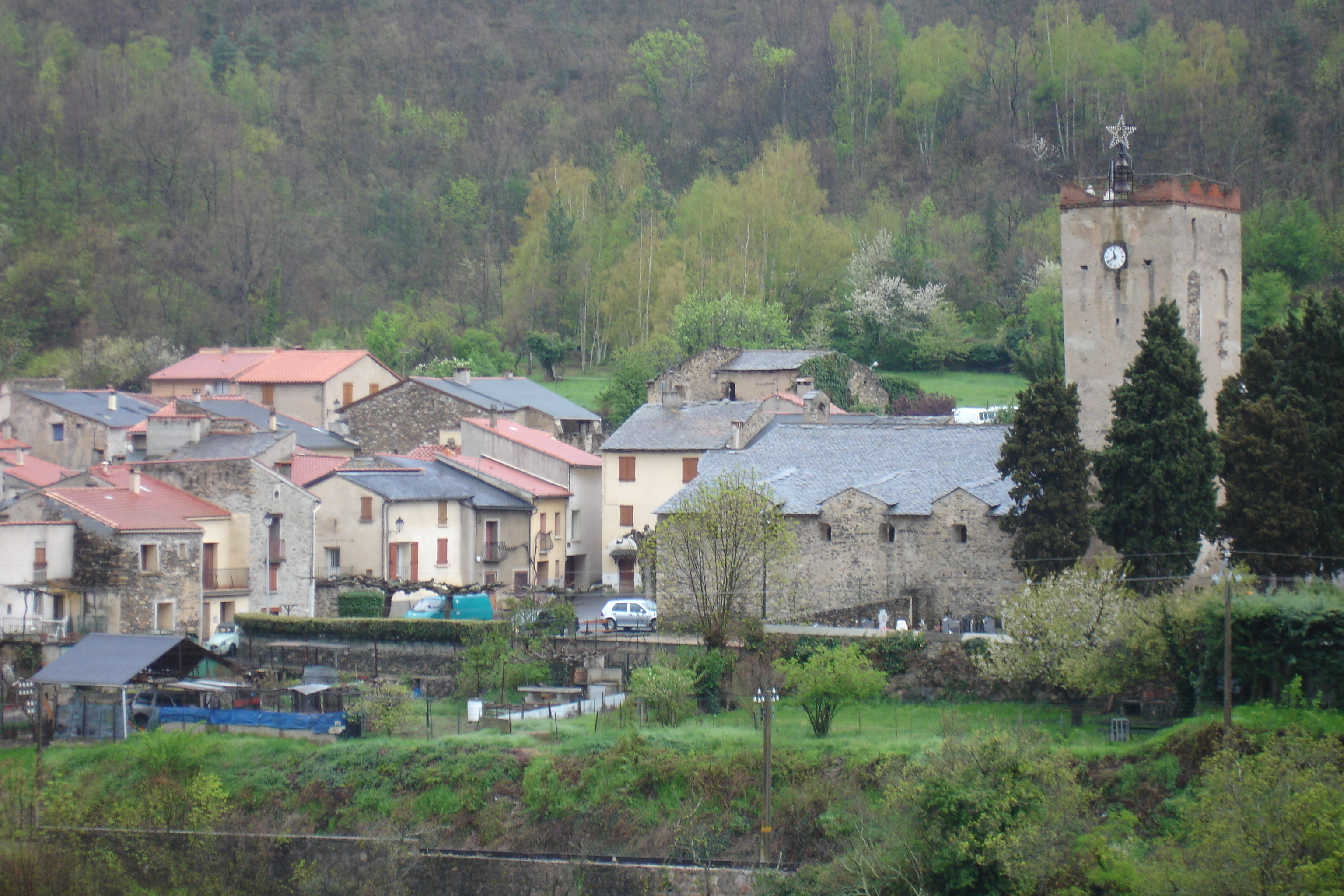 The commune of Serdinya as seen from Route National 116